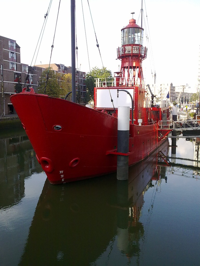 Lightship Breeveertien